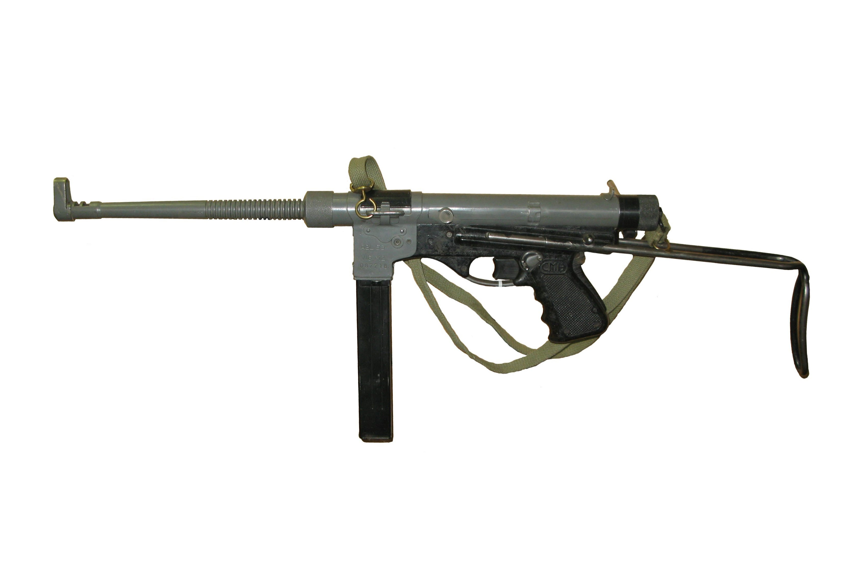 a Vigneron submachine gun